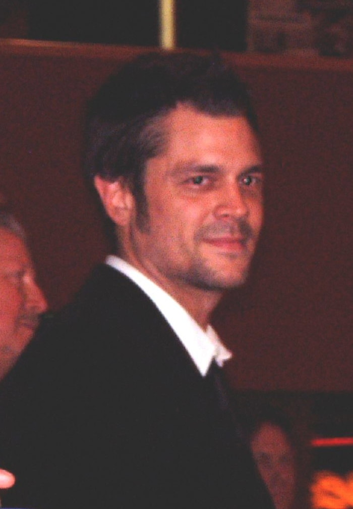 Dukes of Hazzard Premiere, 2005. Johnny Knoxville